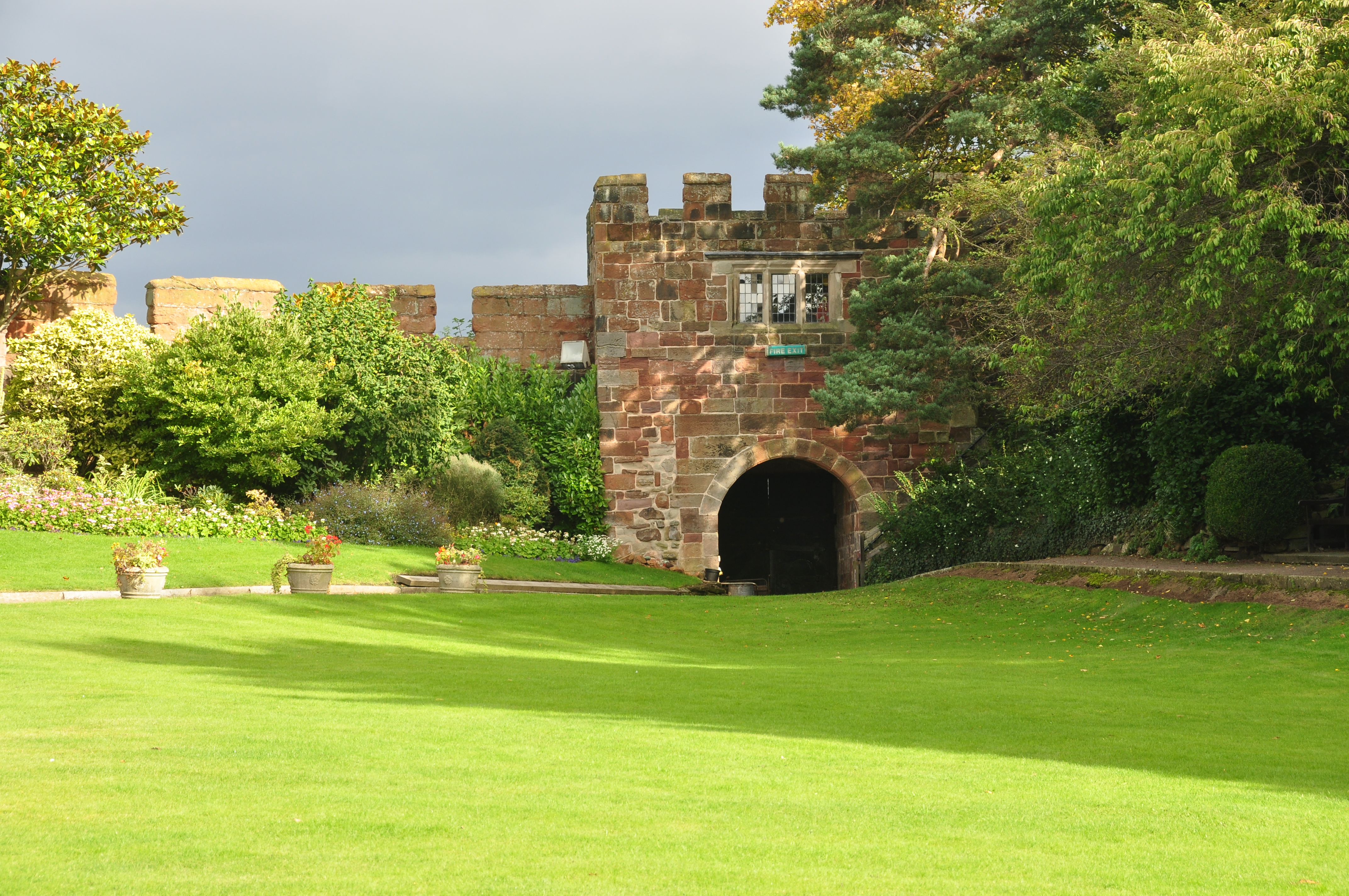 Shrewsbury Castle